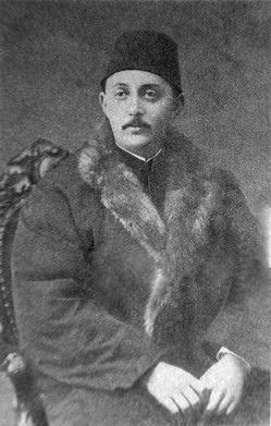 33rd Sultan of the Ottoman Empire and 112nd caliph of Islam ; Murad V. (1840-1904)